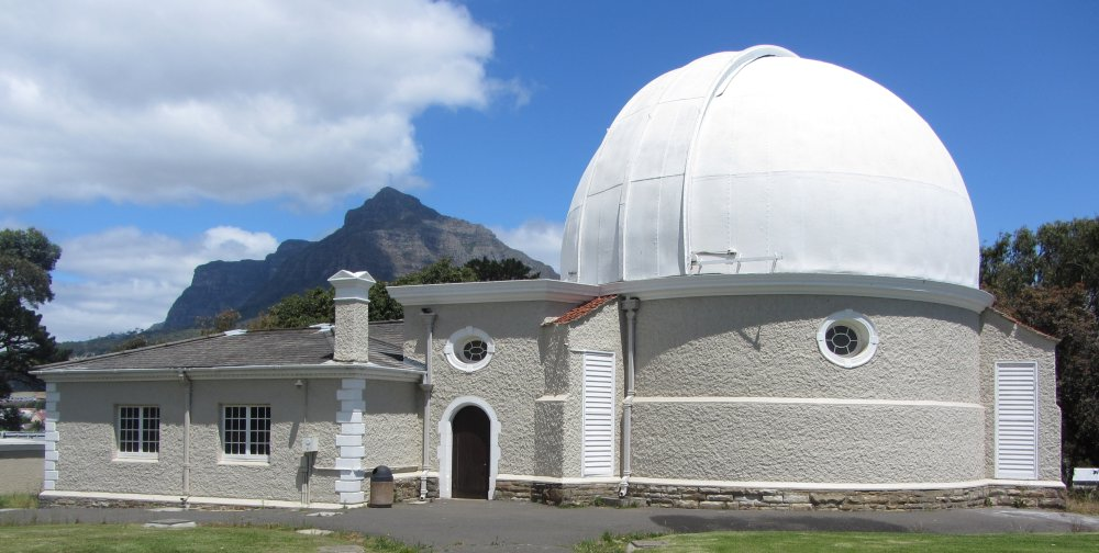 The McClean dome, telescope and laboratory. Royal Observatory, Cape of Good Hope.